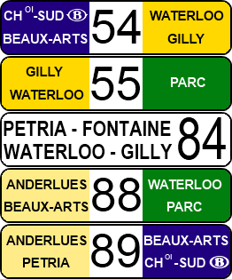 Destination plates used on Charleroi Pre-metro trams as of 2009. This image only contains plates for scheduled passenger lines in service as of 2009.